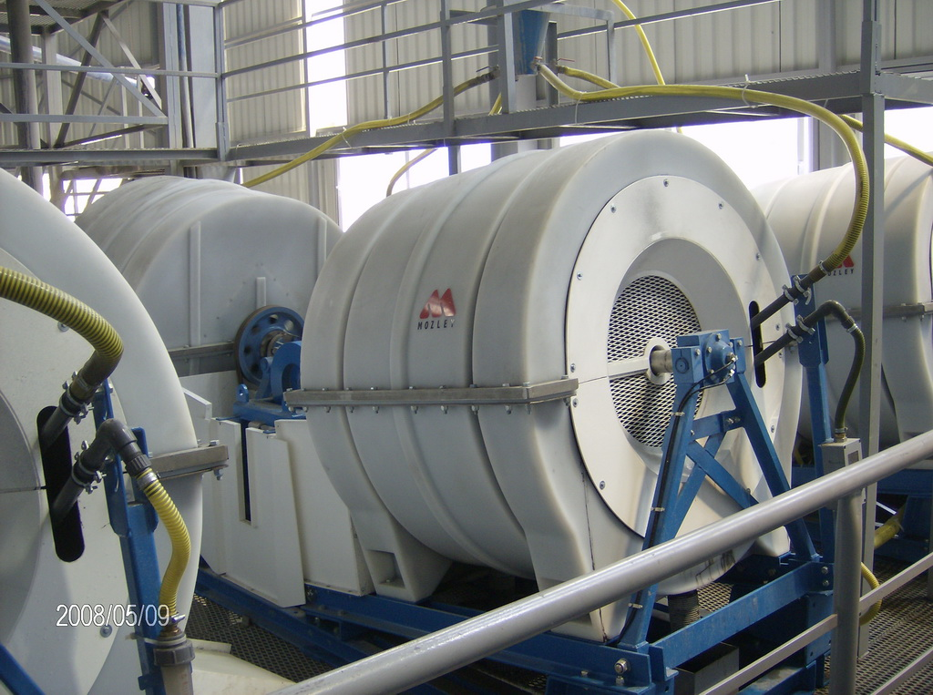 MGS - Multi Gravity Separator Manufactured by Gravity Mining Ltd, England.